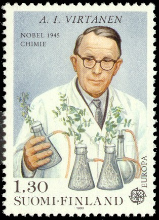 Postage stamp depicting Finnish Nobel-chemist A. I. Virtanen